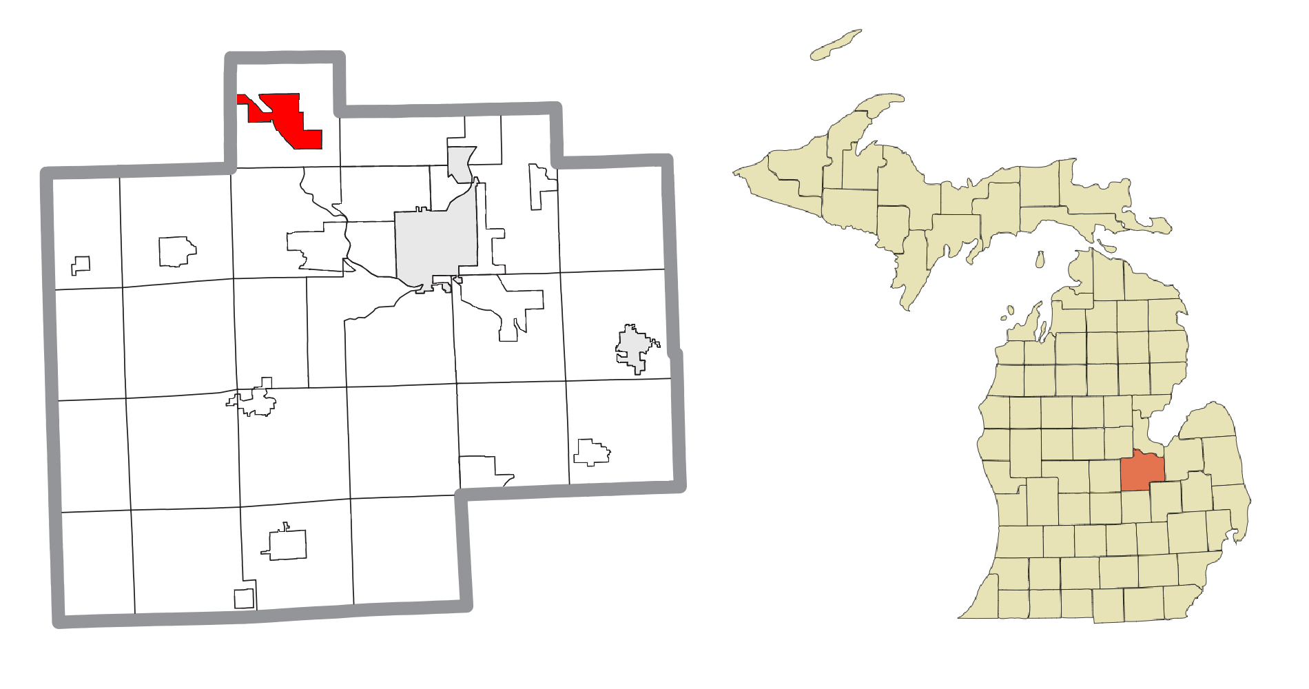 Freeland, MI